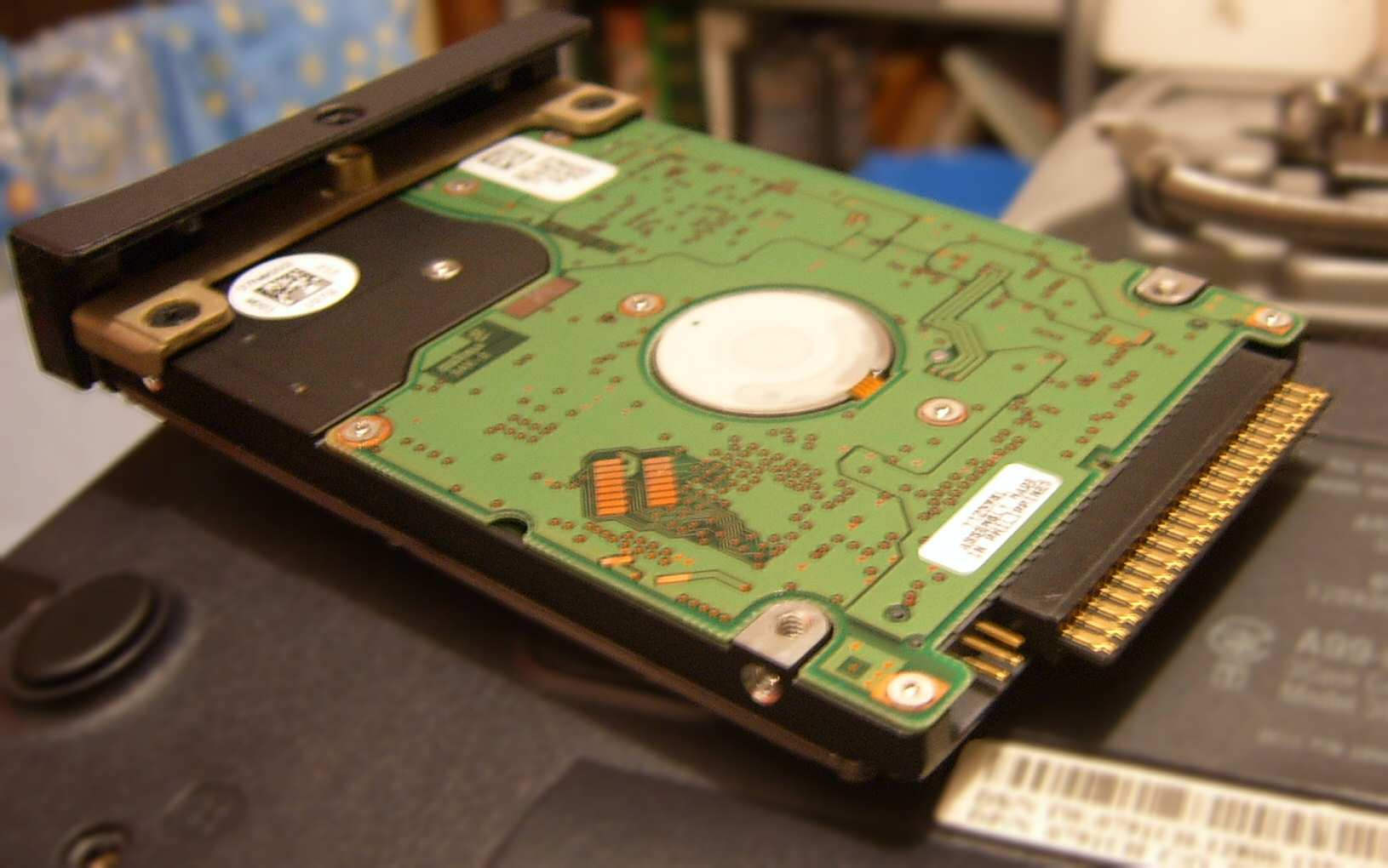 Hard disk from a Dell "Latitude" laptop, roughly five/six years old.